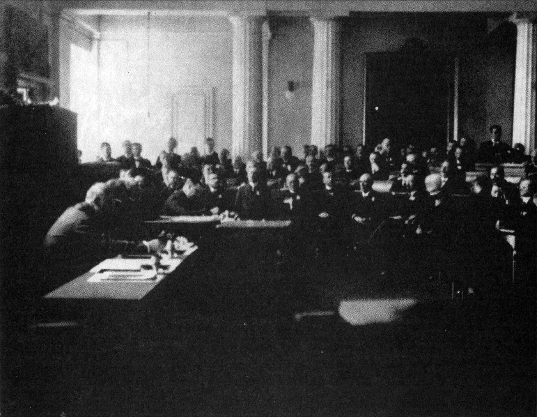 Session of Sabor (Parliament of Croatia) on 29 Ocotber 1918